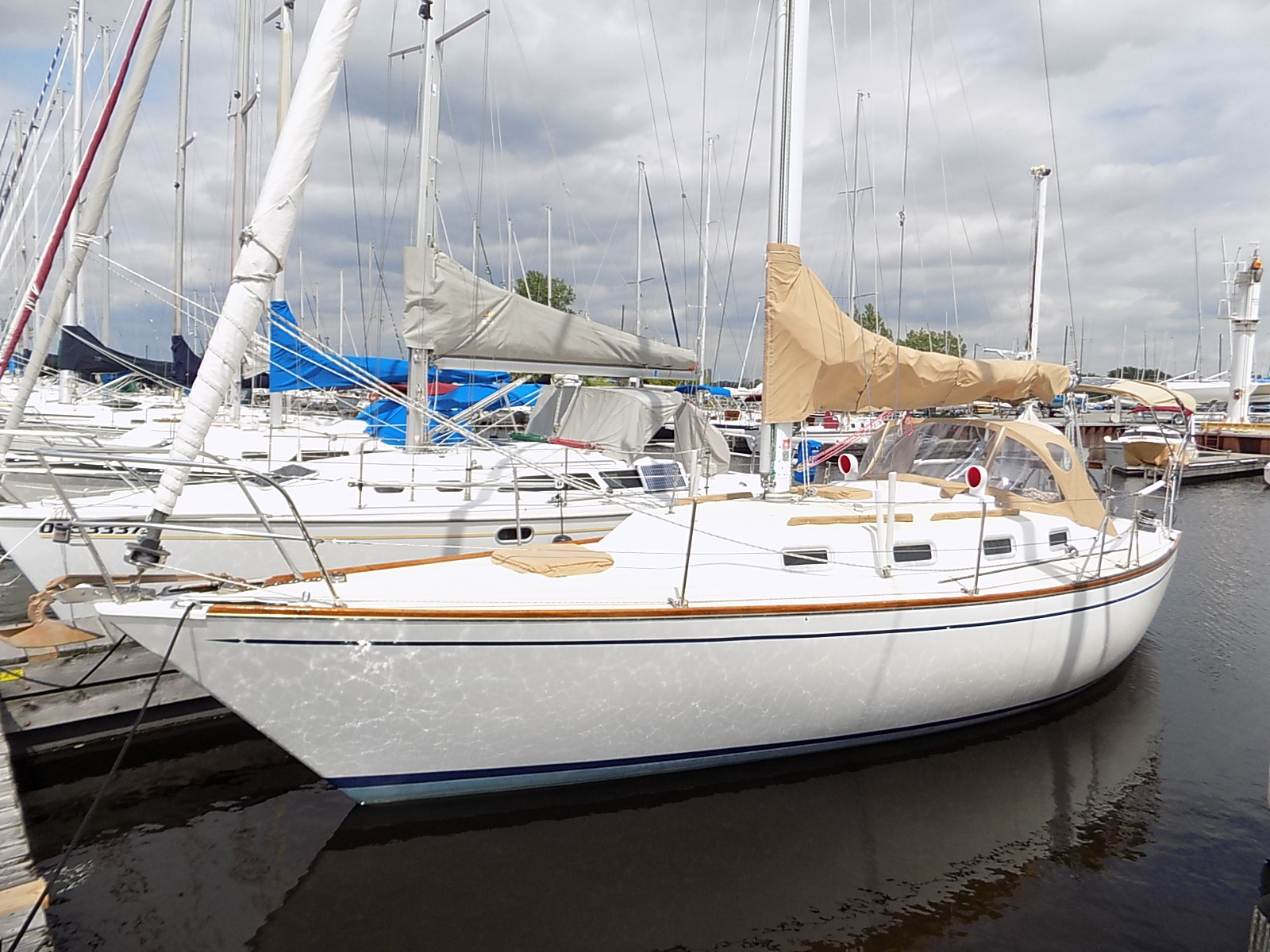 A Tartan 34-2 sailboat named I Don't Know.